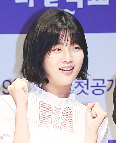 Shin Eun-soo at "Magic School" press conference, 11 September 2017